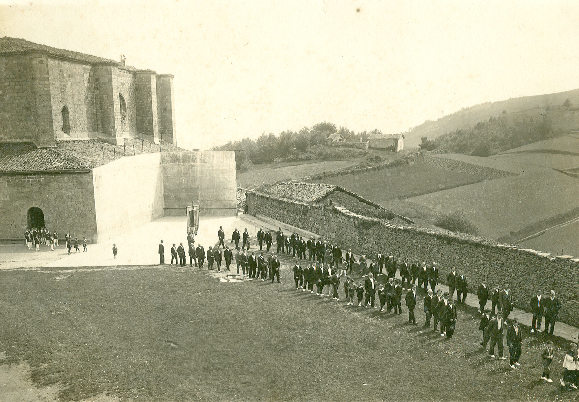 Old pelota court in Alkiza, 1920